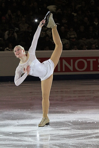 Denise Biellmann at the 2011 European Figure Skating Championships